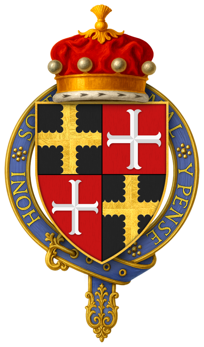 Quartered arms of Sir Robert de Willoughby, 6th Baron Willoughby d'Eresby, KG FOSTER, Joseph, Some Feudal Coats of Arms from Heraldic Rolls 1298-1418, London: James Parker & Co., 1902. “ Willoughby, (Robert, 6th) Lord de - bore, at the siege of Rouen 1418, gules a cross moline argent, quarterly with, or a cross engrailed sable (F.); the quarterings reversed in the Surrey Roll. ” Note: The quarterings mentioned are also reversed on Willoughby's father's stall plate in St. George's chapel. "Gules a cross moline argent" were the ancient arms of Bec, or Beke, whose heiress brought the manor of Eresby into the Wiiloughby family. "Or a cross engrailed Sable" were the arms of Sir John de Mohun, 2nd Baron Mohun, KG whose coheiress daughter who married the 6th Baron Strange. Note: these arms borne by Willoughby are usually given as Sable, a cross engrailed or (as depicted in this image), not as in the arms of Mohun, and are said to be the arms of Ufford.